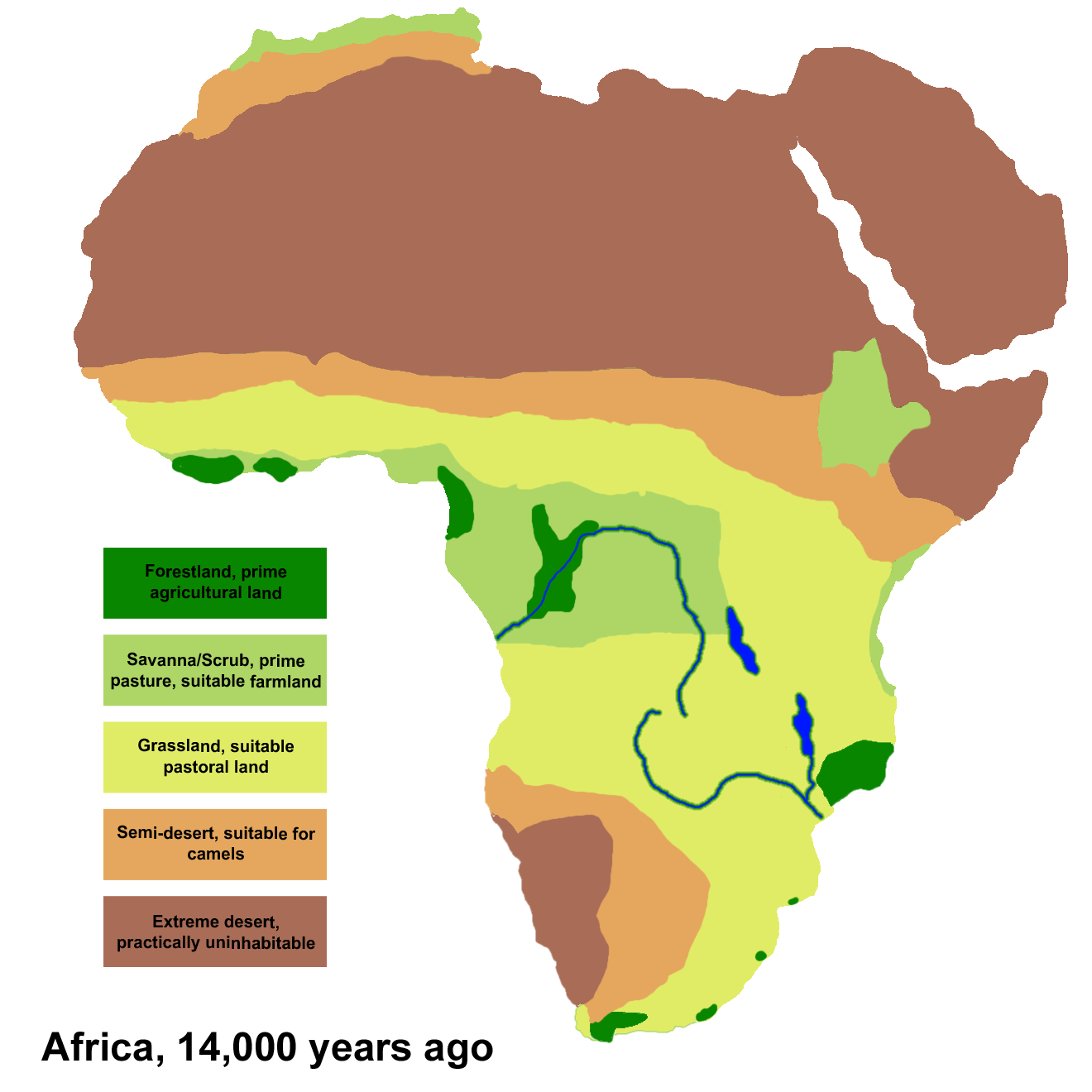 Climate areas based on data and maps from the Oak Ridge National Laboratory Paleovegitation project This map is of Africa circa 14,000 years before present, in the middle of the last glacial maximum. Effectively, Africa in the last "Ice Age".